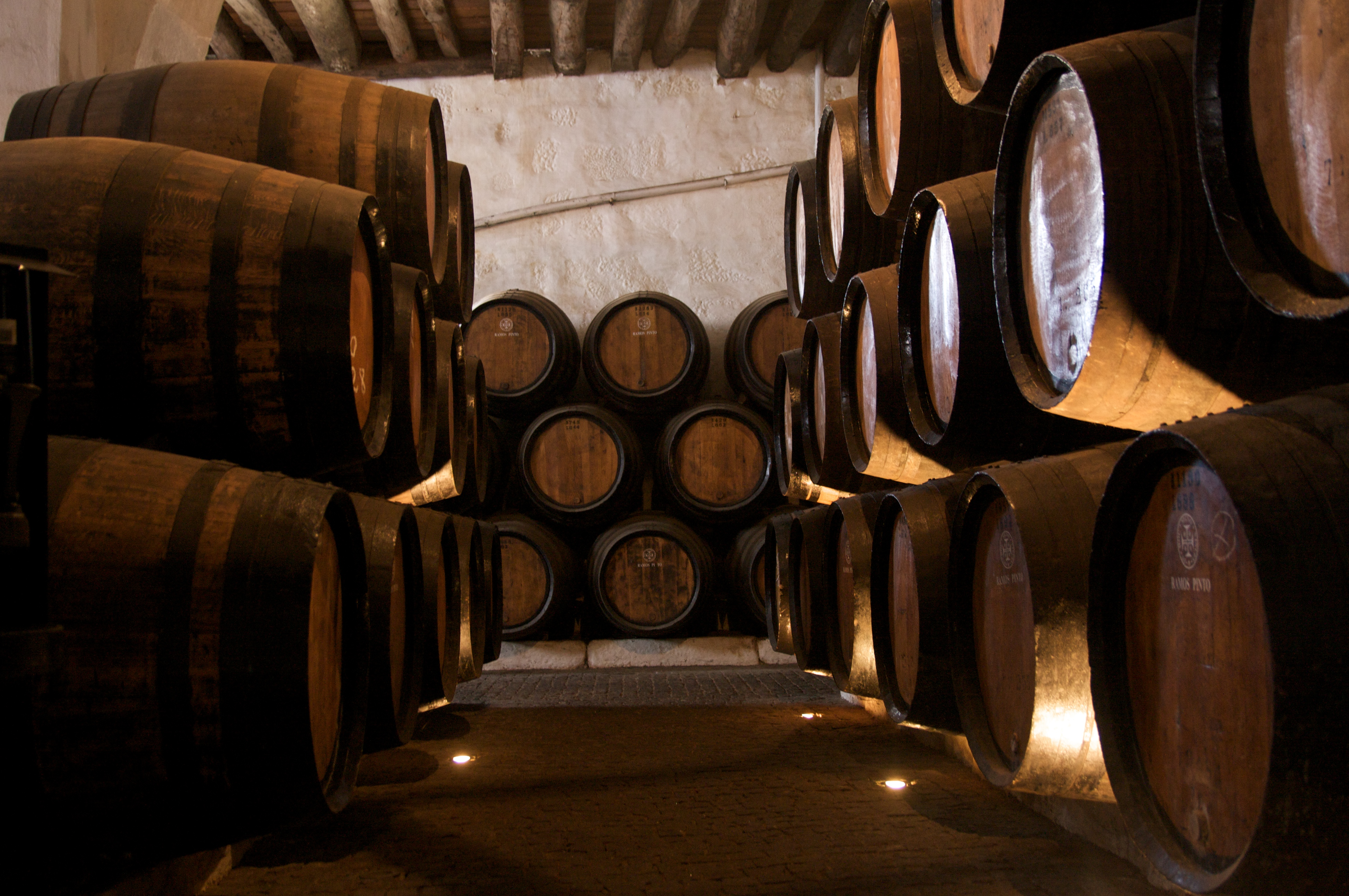 Port barrels in a Wine cellar, Vila Nova de Gaia, Portugal.